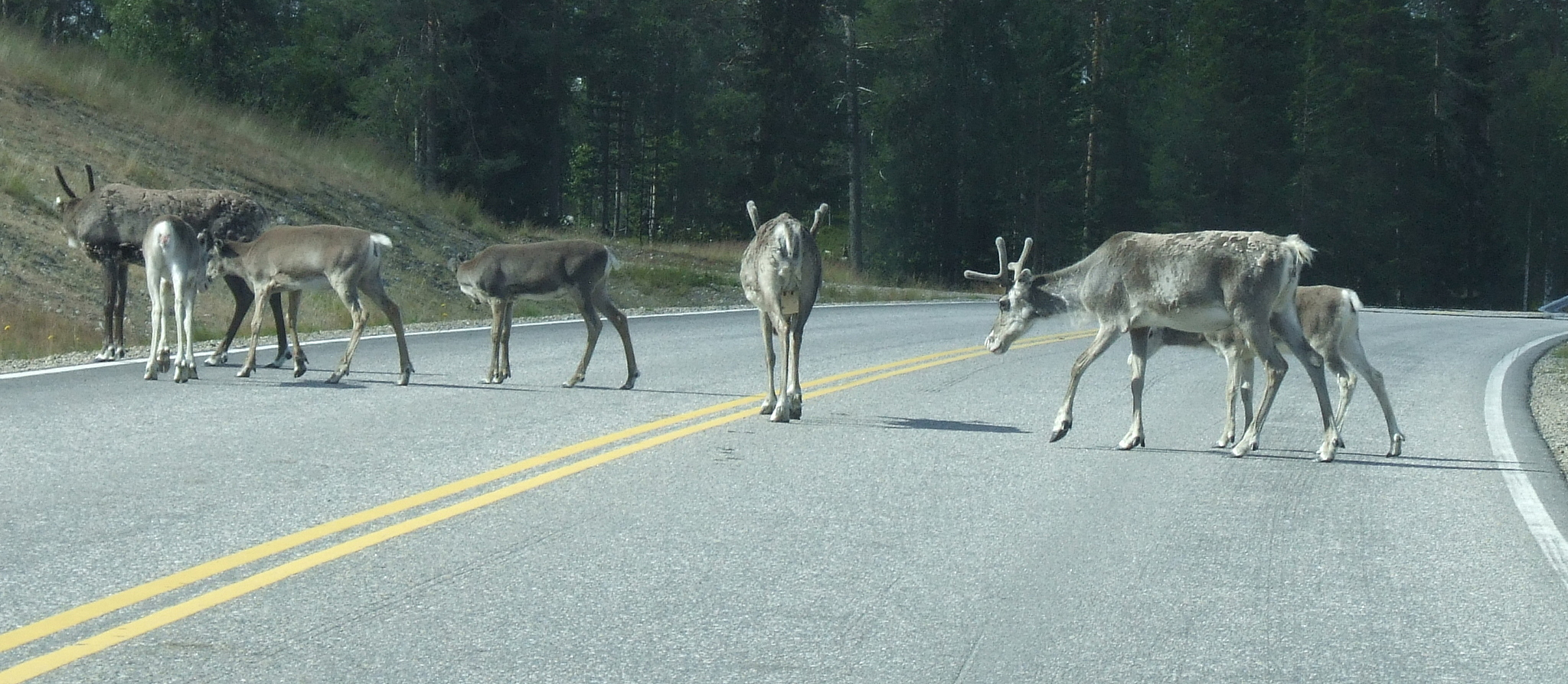 A herd of reindeer crossing the national road 81 in Posio, Finland.